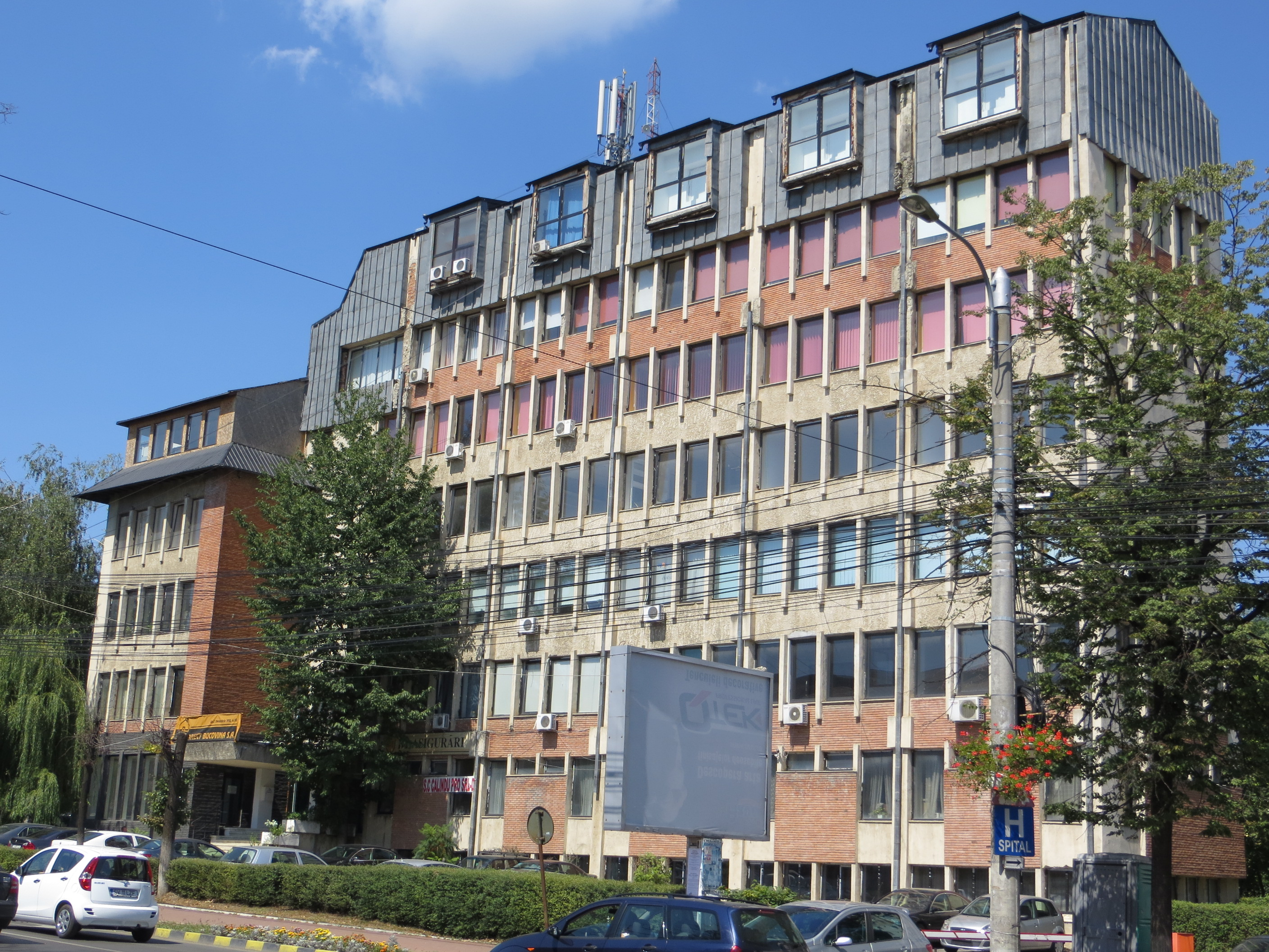 Institute of Design in Suceava.